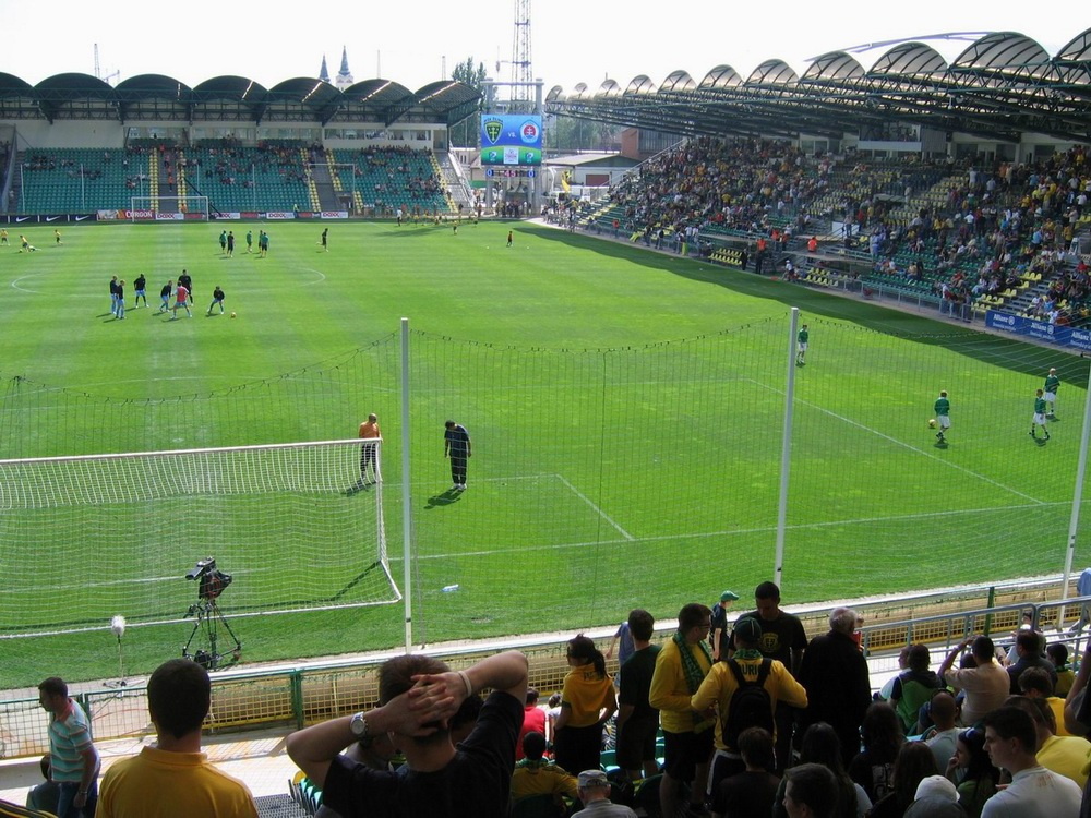 Zilina take on Slovan in May 2009